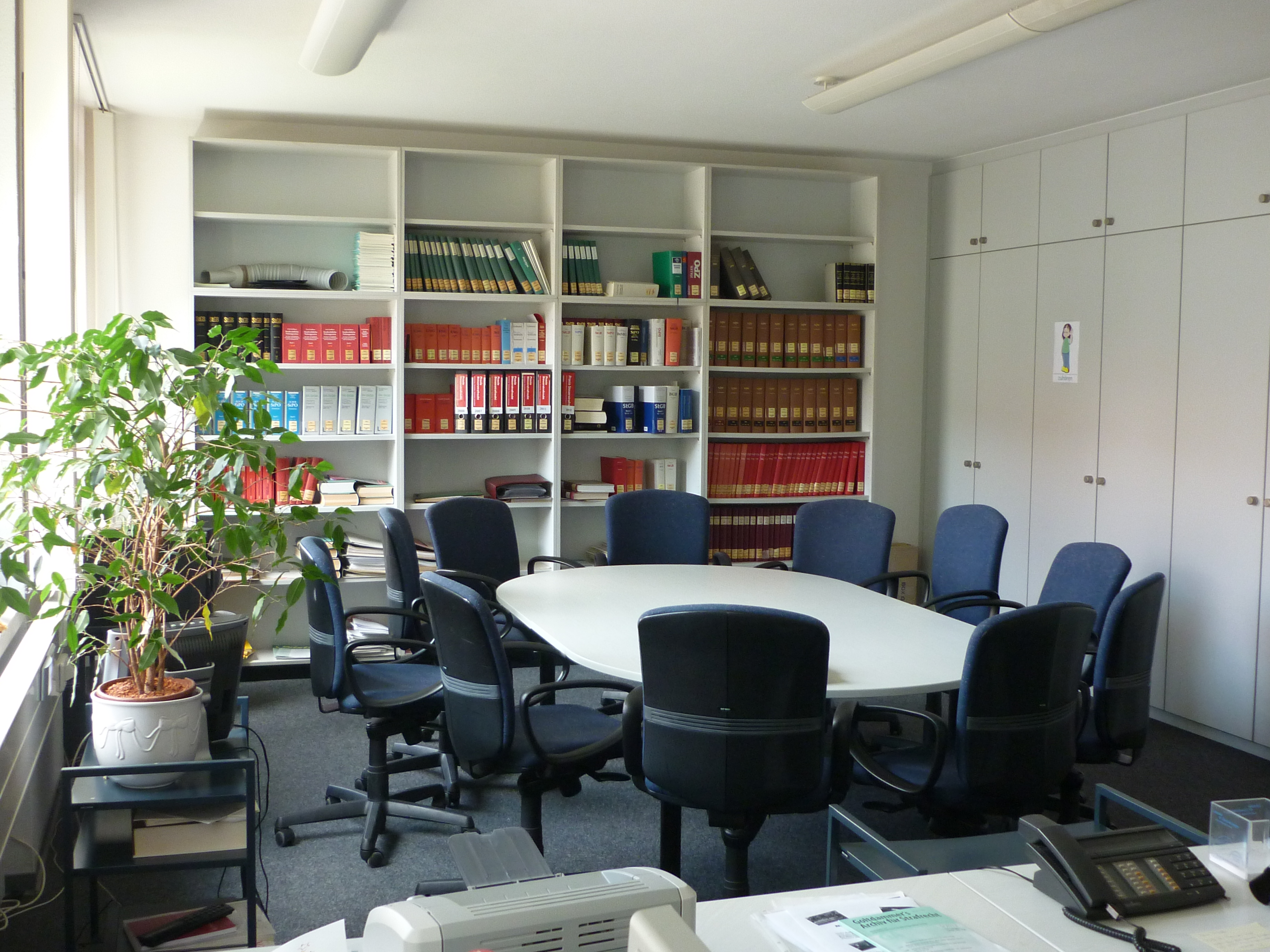 Consultation room of a criminal senate of the Federal Court of Justice of Germany, west building, Karlsruhe